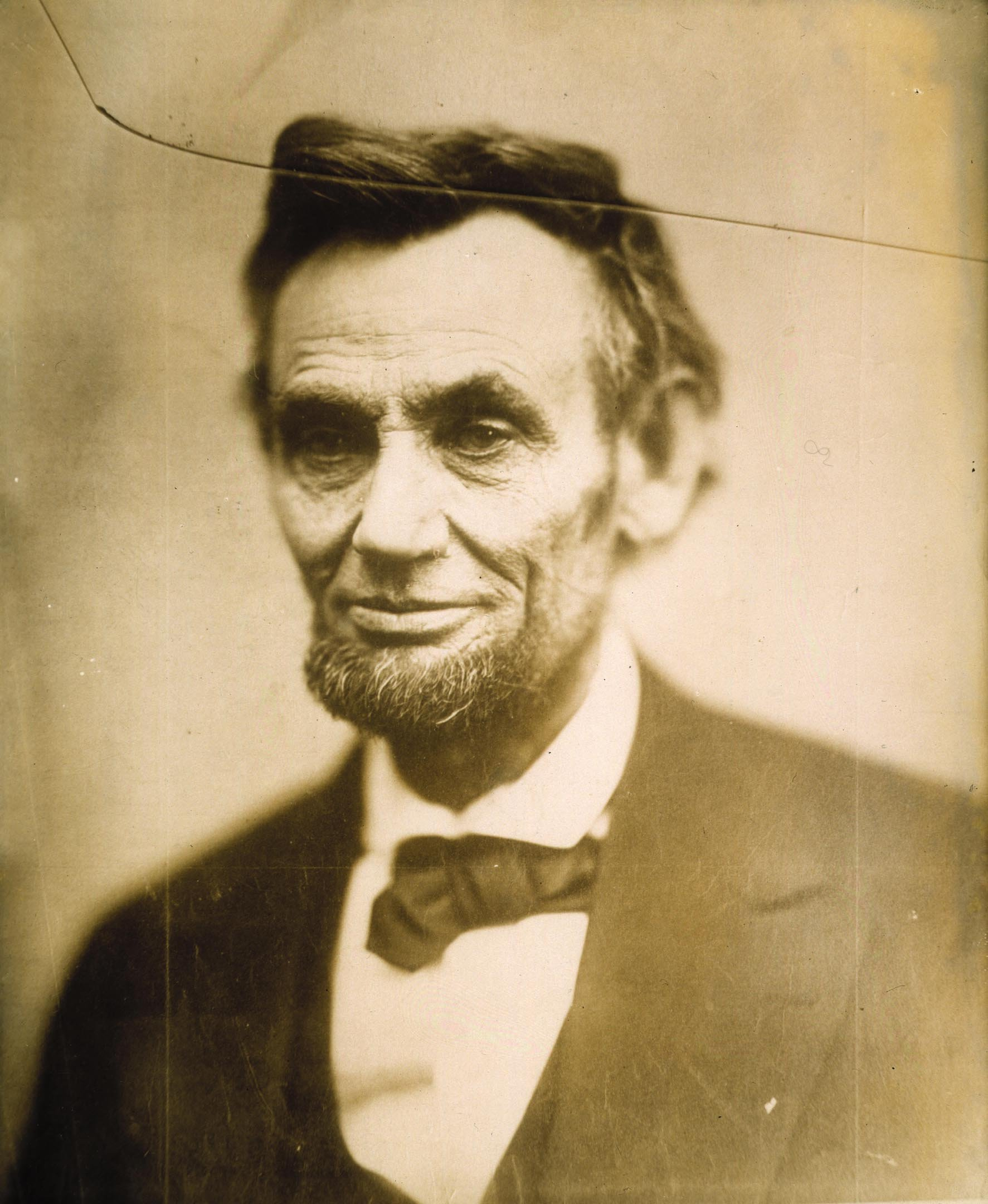 On Sunday, February 5, 1865, at Gardner's Gallery in Washington DC, Alexander Gardner took several multiple-lens pictures of the President. Before this session ended, Gardner asked the president for one last pose. He moved his camera closer and took a photograph of Lincoln’s head, shoulders, and chest. Mysteriously the glass plate negative cracked. Gardner carefully took it to his dark room and was able to make one print, with an ominous crack across Lincoln’s face, before it broke completely and was discarded. This print, known as O-118, still exists to this day. Over the years many people have associated this crack with a symbolic foretelling of the assassin’s bullet that awaited Lincoln 10 weeks later.